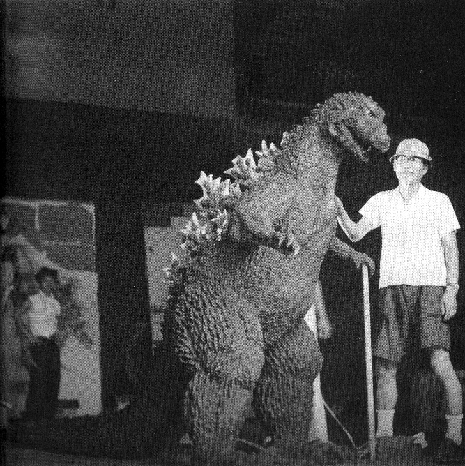 Behind the scenes on the set of Godzilla.